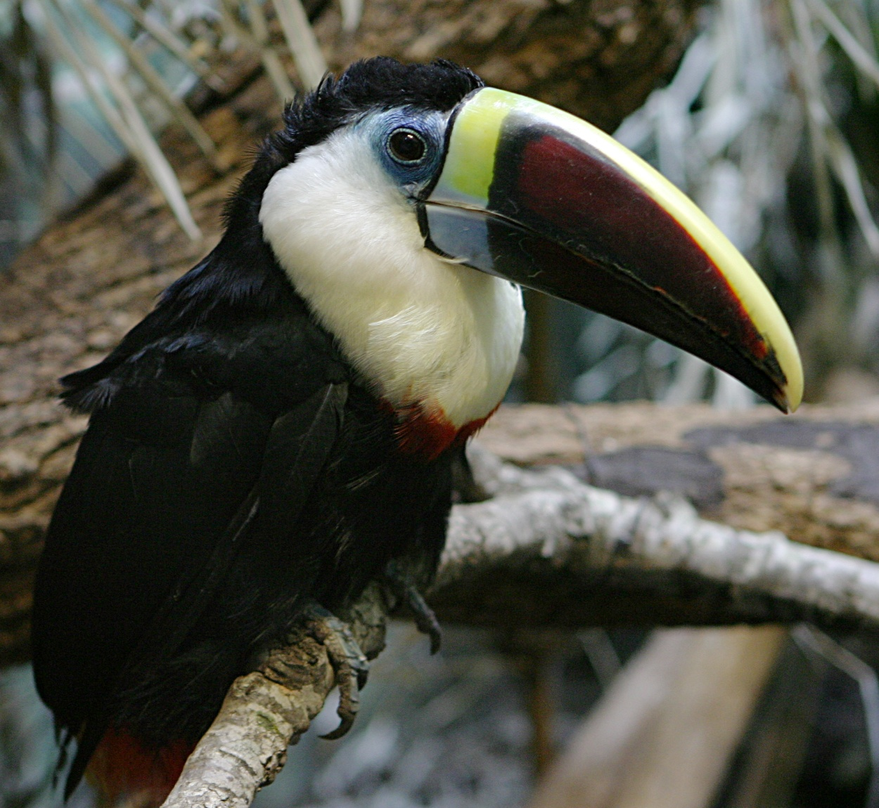 Ramphastos tucanus: White-throated Toucan/Red-billed Toucan at the Houston Zoo